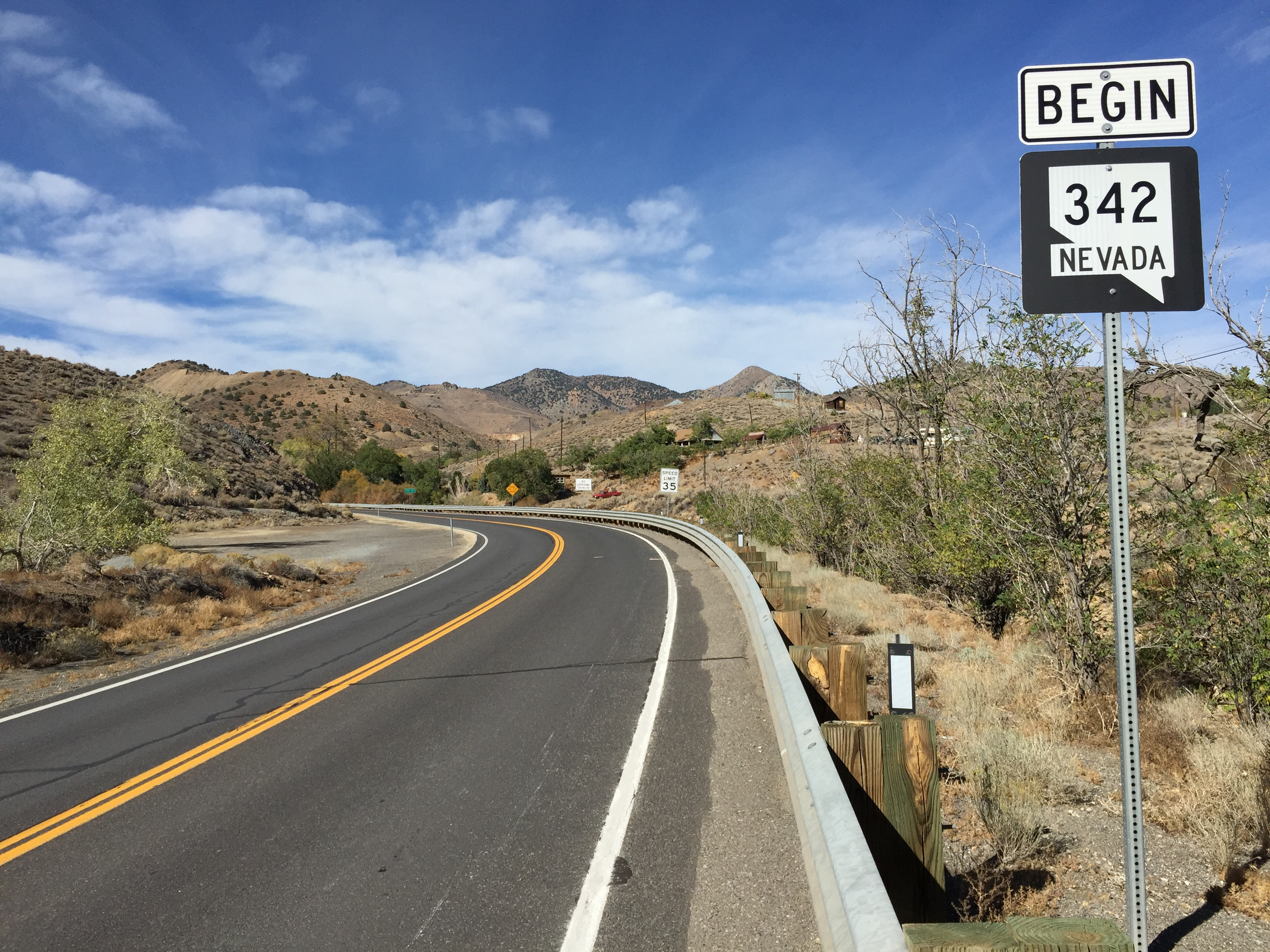 View north from the south end of Nevada State Route 342 (Silver City/Gold Hill Road) in Silver City, Nevada